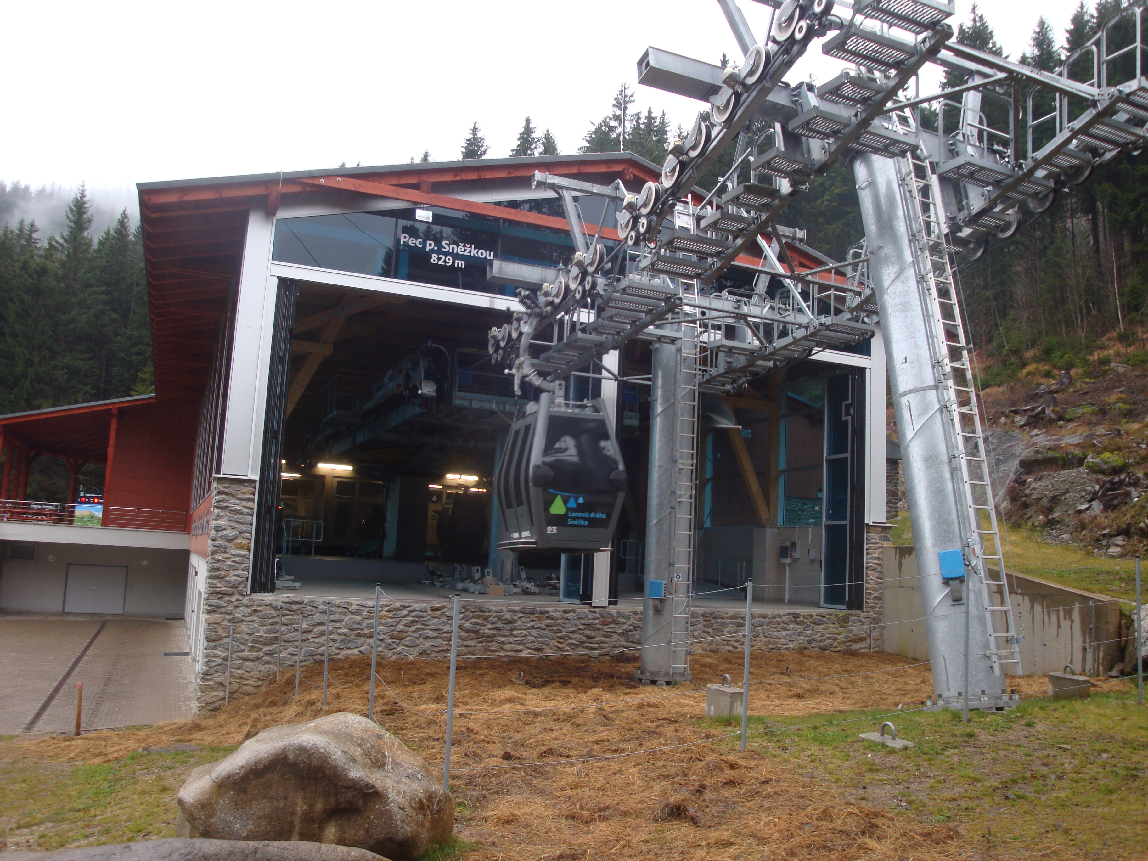 Cableway Pec pod Sněžkou-Sněžka, Czech Republic.